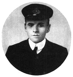 Charles Lightoller, officer on the Titanic